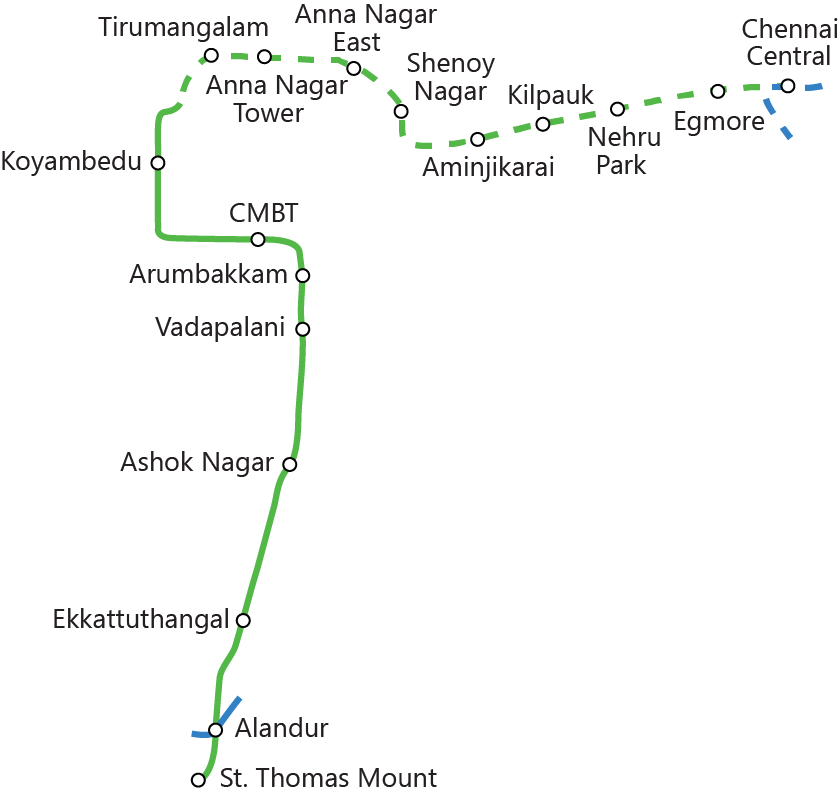 A map of the Chennai Metro Green Line.